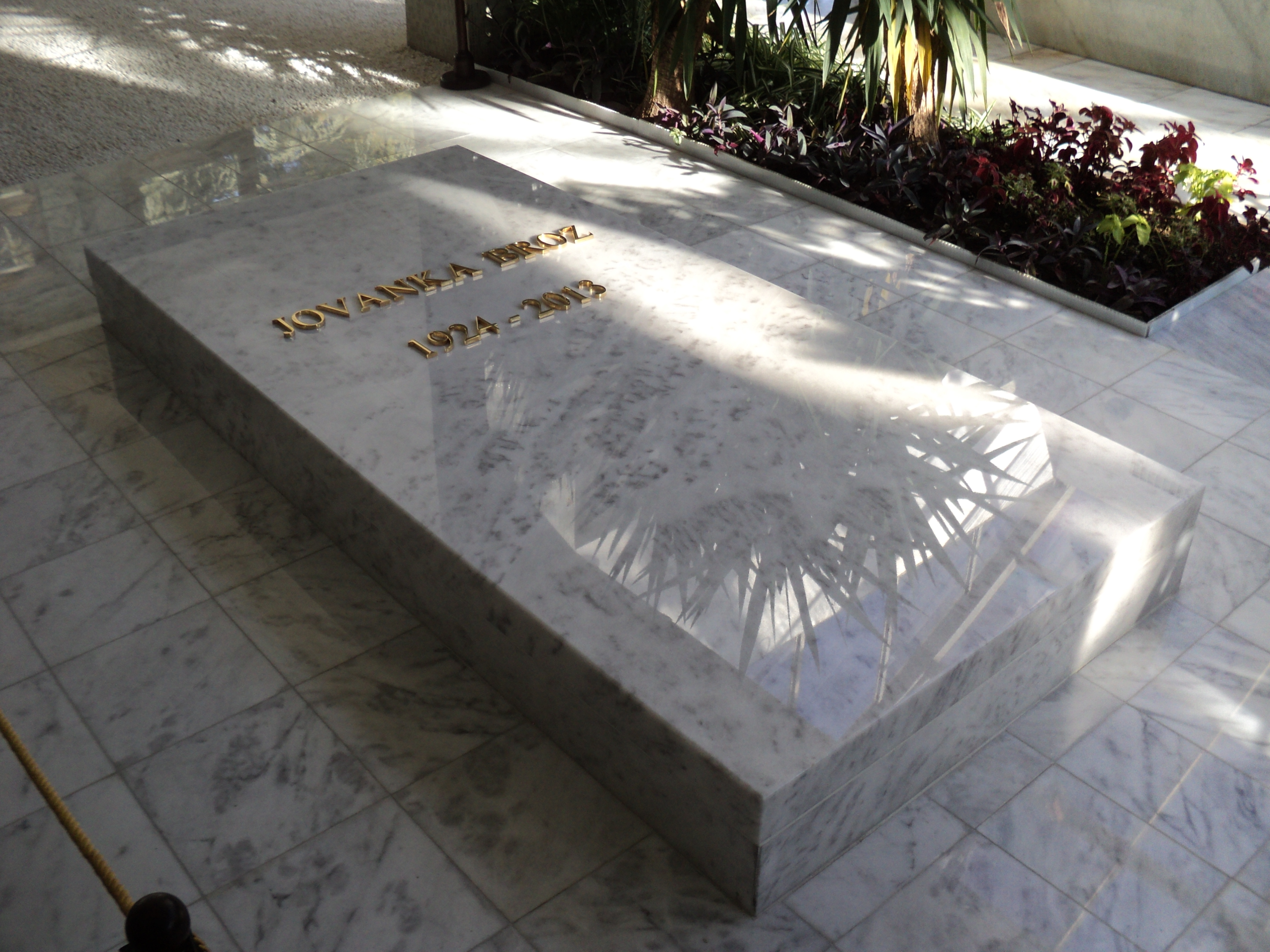 Tomb of Jovanka Broz (1924-2013) in the House of Flowers, located next to the tomb of her husband, Josip Broz Tito.